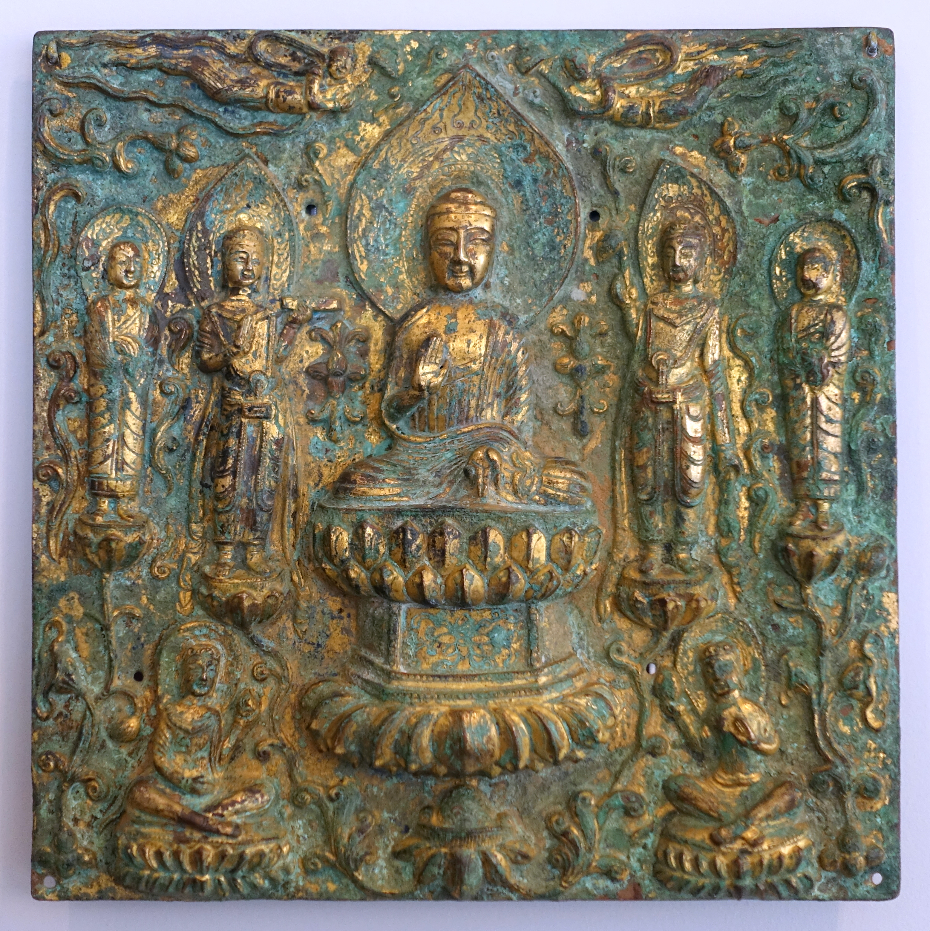 Chinese sculpture in the Arthur M. Sackler Museum, Harvard University, Cambridge, Massachusetts, USA. This artwork is in the public domain because the artist died more than 70 years ago.